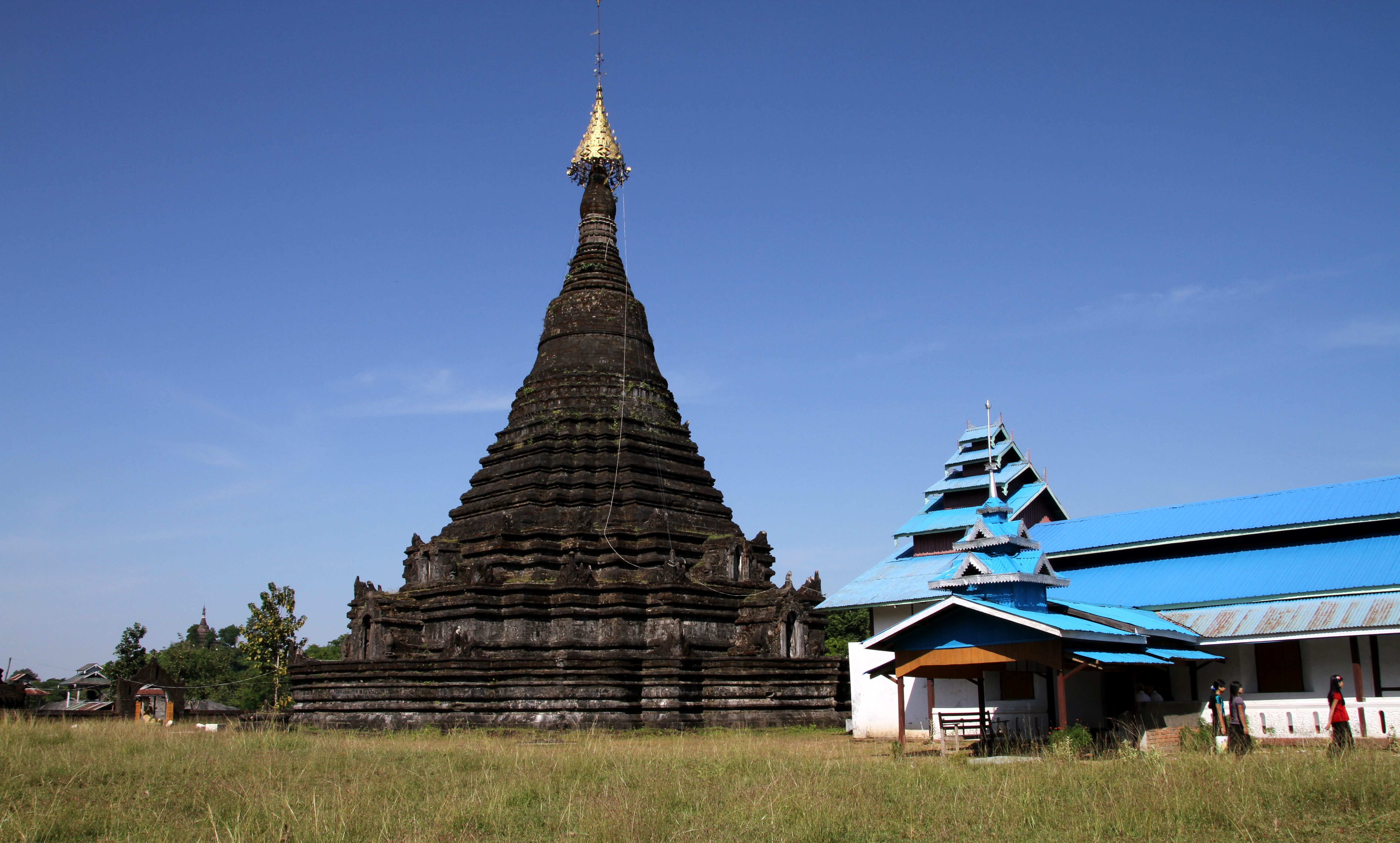 Sakya Man Aung Pagoda in Mrauk U, old capital in the Rakhine State in Myanmar.